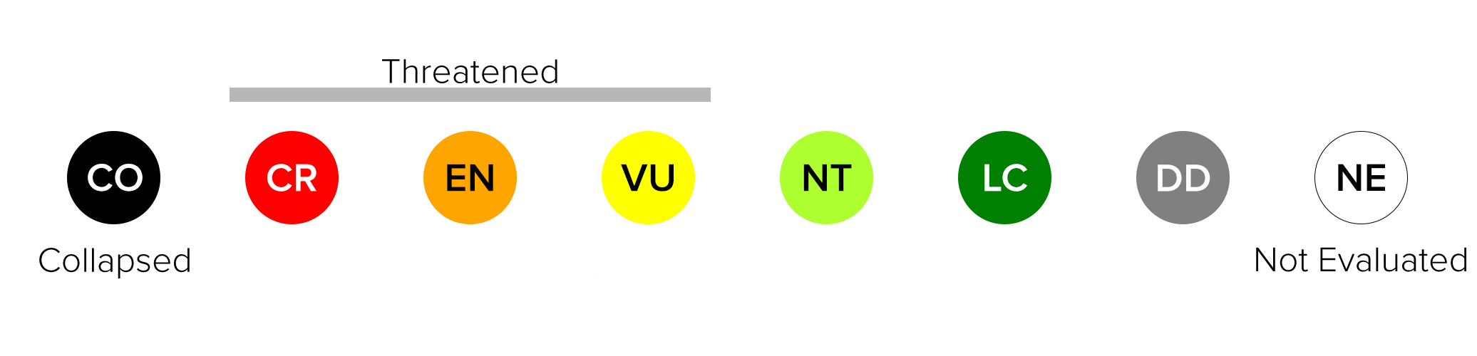 Colors of the state of conservation, according to the classification granted by the current version of the Red List of Ecosystems prepared by IUCN. Categories granted by the current version of the Red List of Ecosystems prepared by IUCN.